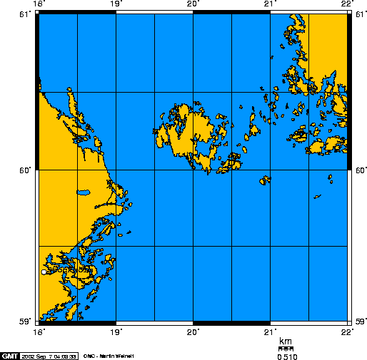 Aland Map. Created using PD and GFDL sources: US Government datasets, GMT software, and GIMP in Linux: GMT is an open source collection of ~60 tools for manipulating geographic and Cartesian data sets (including filtering, trend fitting, gridding, projecting, etc.) and producing Encapsulated PostScript File (EPS) illustrations ranging from simple x-y plots via contour maps to artificially illuminated surfaces and 3-D perspective views. GMT supports ~30 map projections and transformations and comes with support data such as coastlines, rivers, and political boundaries. GMT is developed and maintained by Paul Wessel and Walter H. F. Smith with help from a global set of volunteers, and is supported by the National Science Foundation. It is released under the GNU General Public License ... data from the US national data centers (NOAA, USGS, NGDC, NEIC) can be used with GMT, and they are all freely available from these centers and individuals via the internet ...